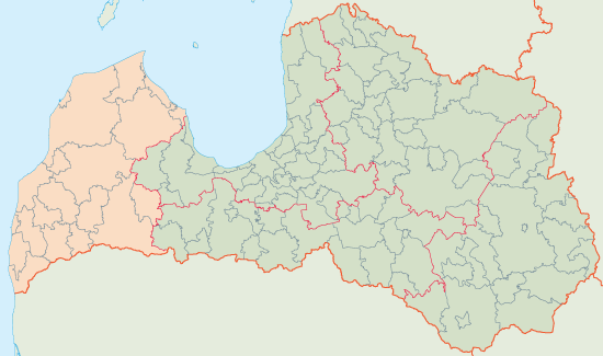 Location map of Kurzeme Region, Latvia.